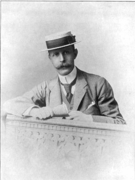 Seymour Bathurst, 7th Earl Bathurst by the Dickinson Brothers of Bond Street [William Robert Dickinson (1815-1887) - Lowes Cato Dickinson (1819-1908) - Gilbert Bell Dickinson (1825-1908)]